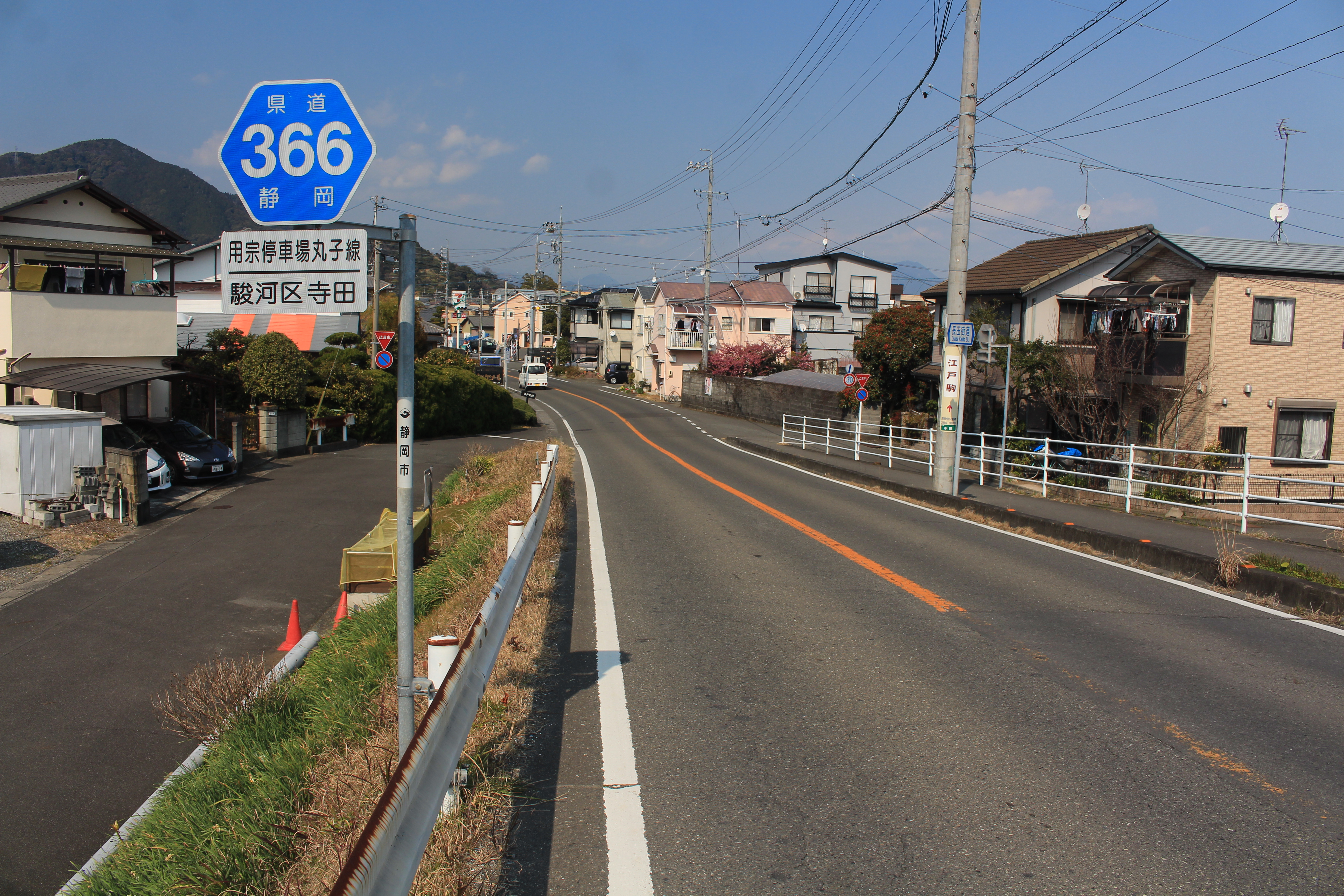 Shizuoka Prefectural Road Route 366 in Terasa, Suruga-ku, Shizuoka city, Shizuoka prefecture, Japan.